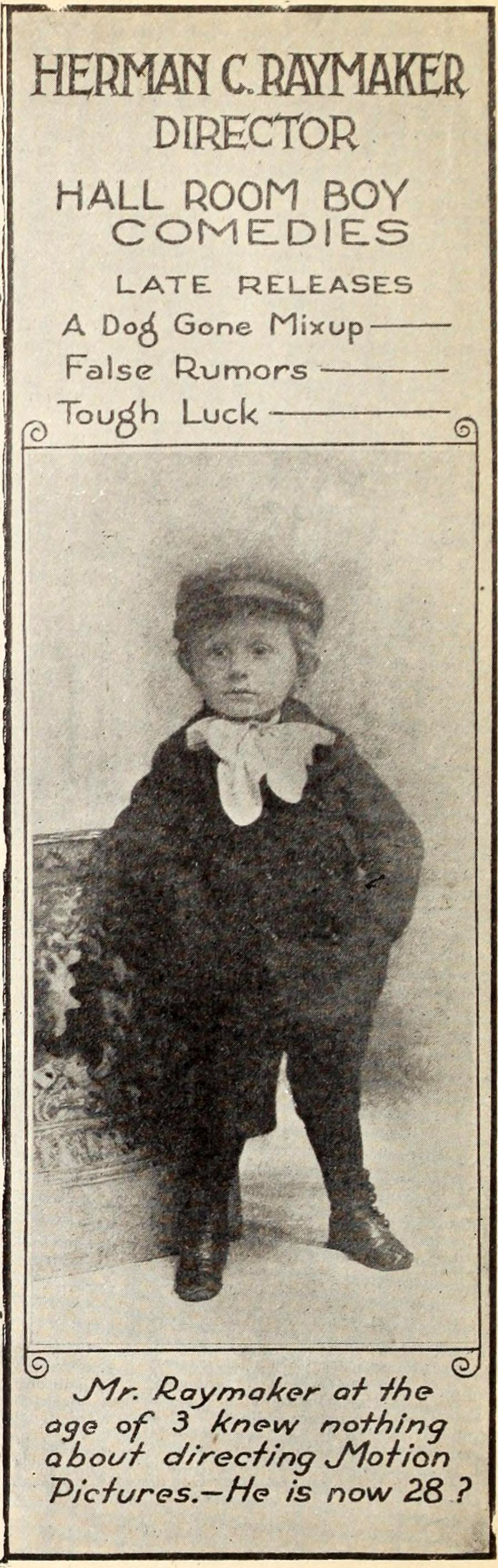 Promotional photo